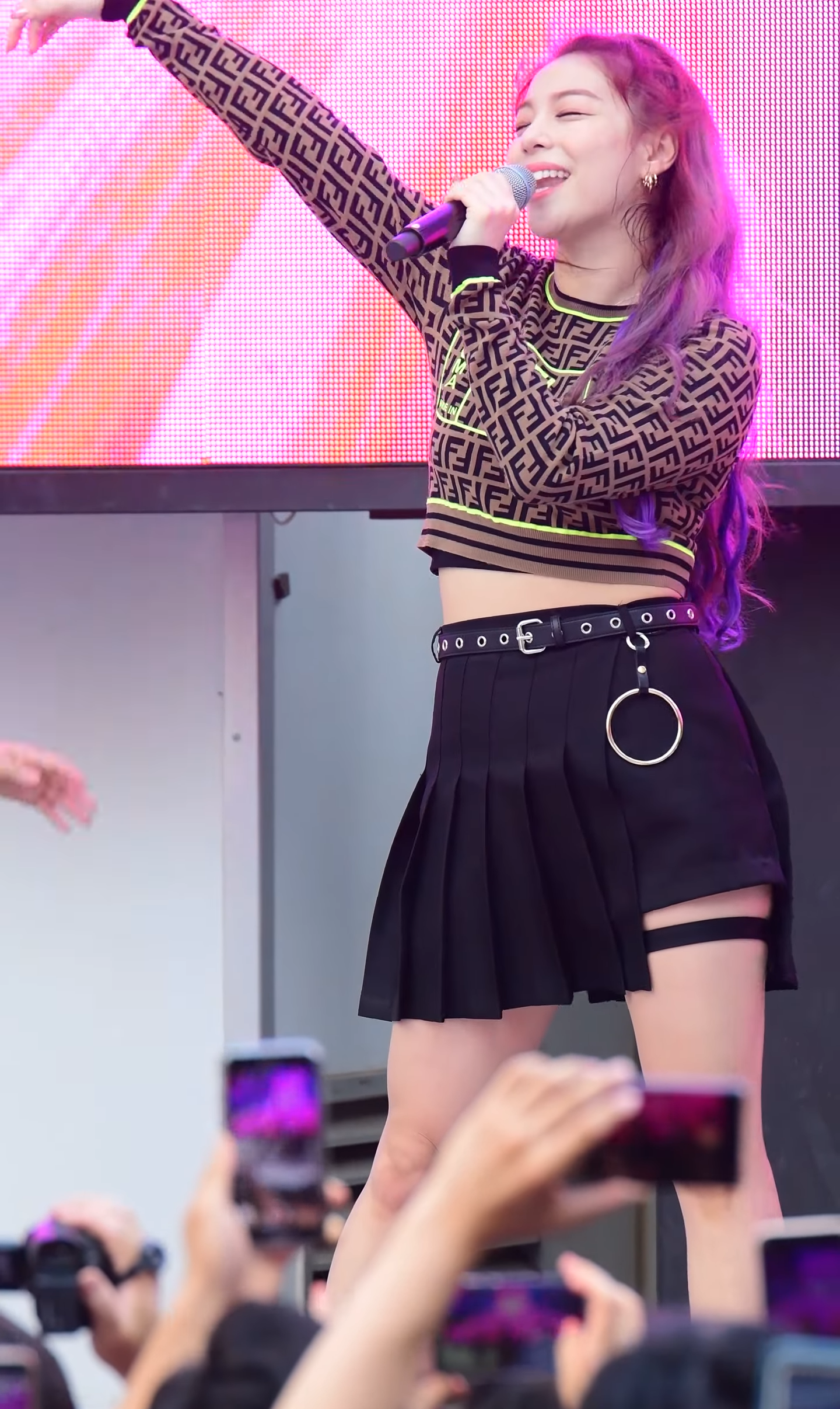 Ailee busking 'Shaking Movement' Project 1 in Myeongdong